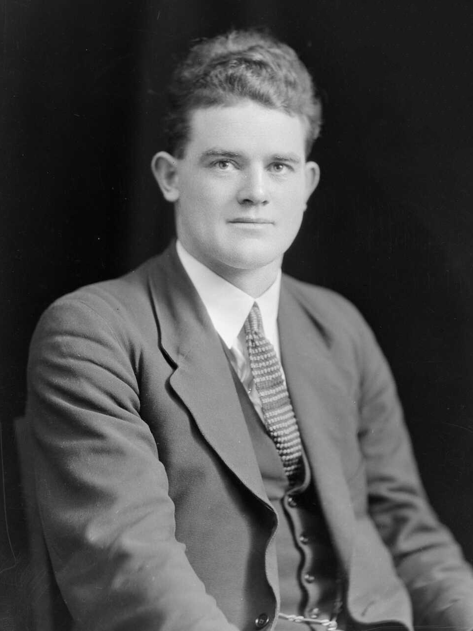 John Steele, All Black rugby player 1924